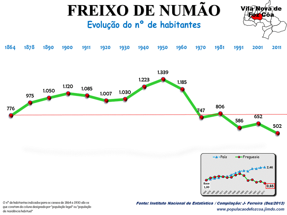 Evolução da População 1864 / 2011